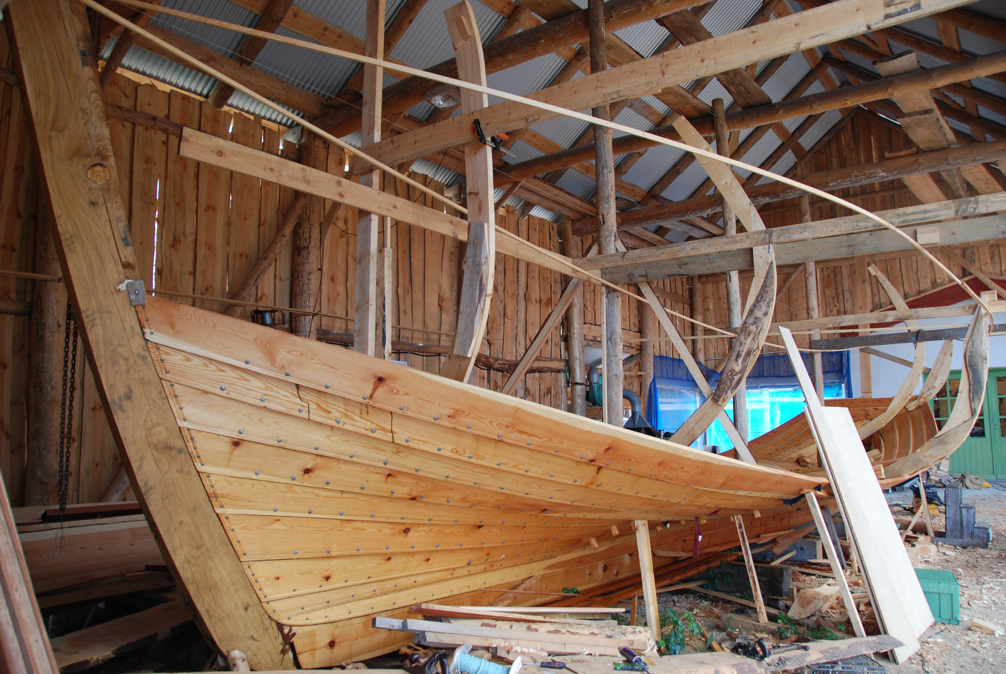 Restauration under construction summer 2008